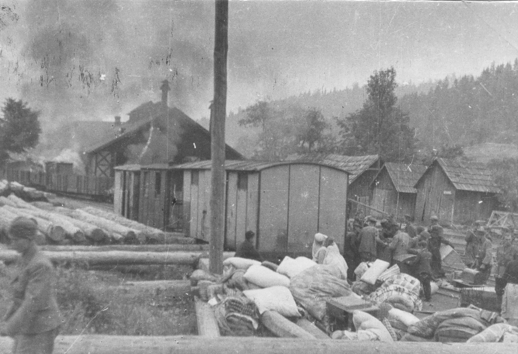 Picture of Partisans burning railway station in Olovo after they captured it from Axis forces